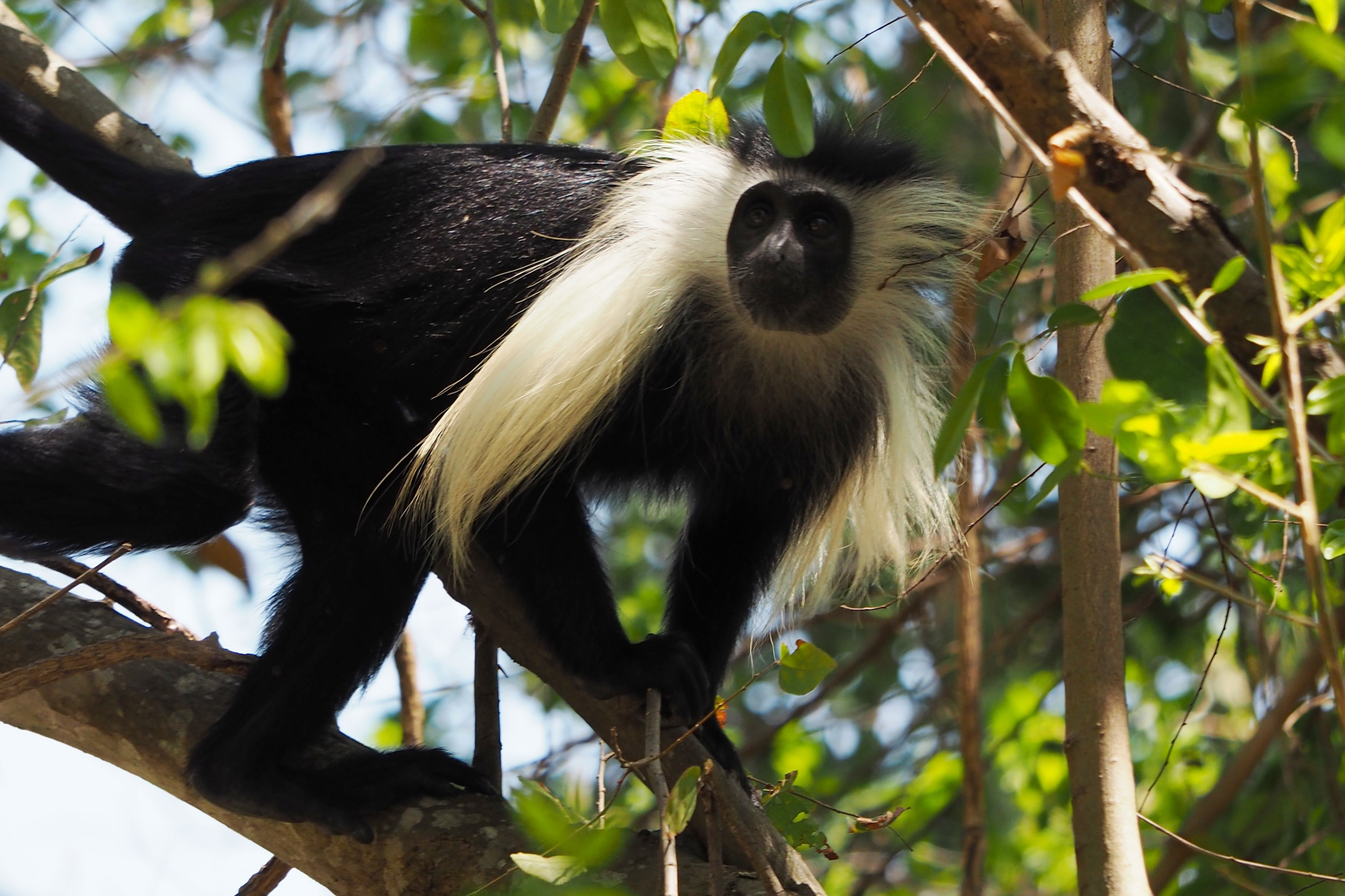 Colobus angolensis subsp. palliatus Peters, 1868